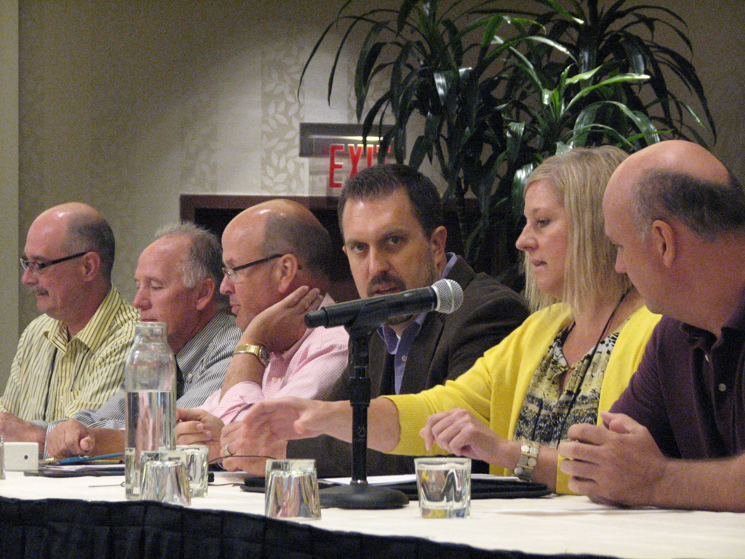 Audit Guide Draft: Process Update and Opportunity for Input